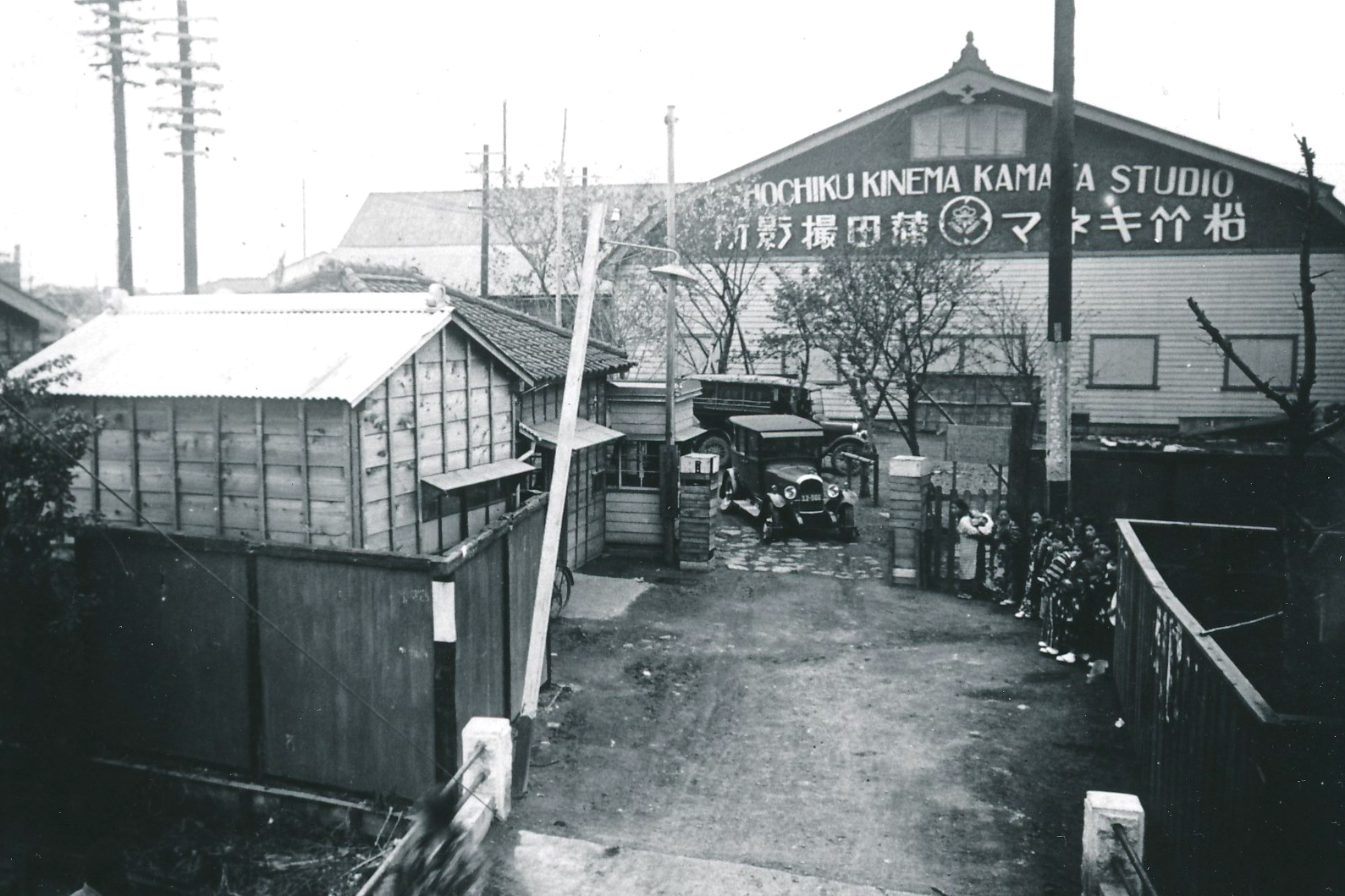 Shōchiku's studios of Kamata in the 1920s